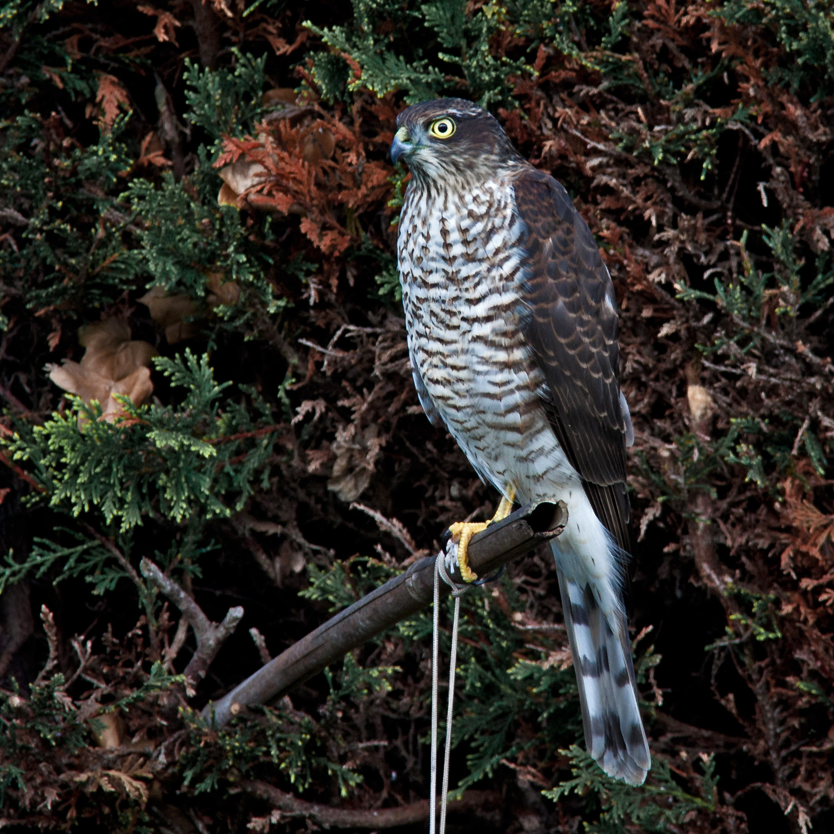 A Eurasian Sparrowhawk in Williton, West Somerset, England. The bird is perching a cane that supports a bird feeder.